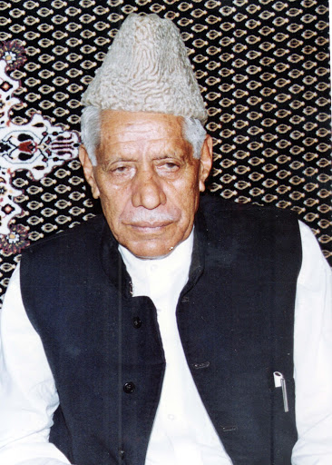 Hussain at Function in Jammu